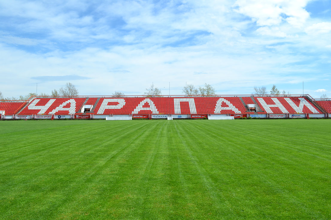 Mladost stadium in Kruševac, Serbia.